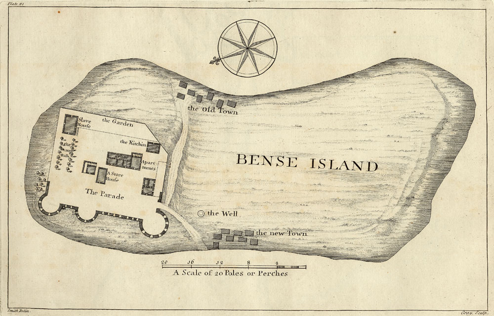 A map of Bunce Island in Sierra Leone drawn c. 1727